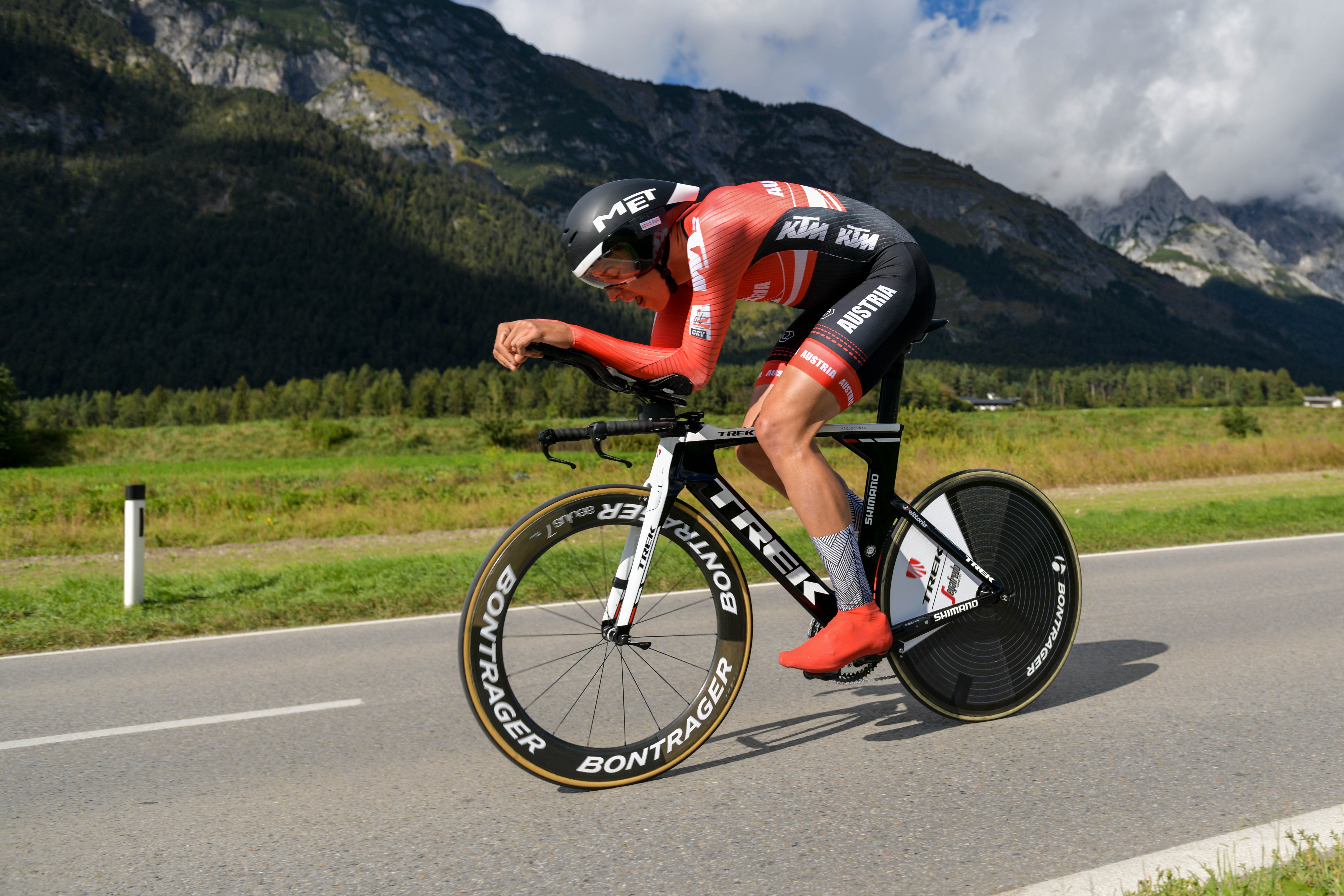 2018 UCI Road World Championships Innsbruck/Tirol Men under 23 Individual Time Trial. Picture shows: Patrick Gamper of Austria